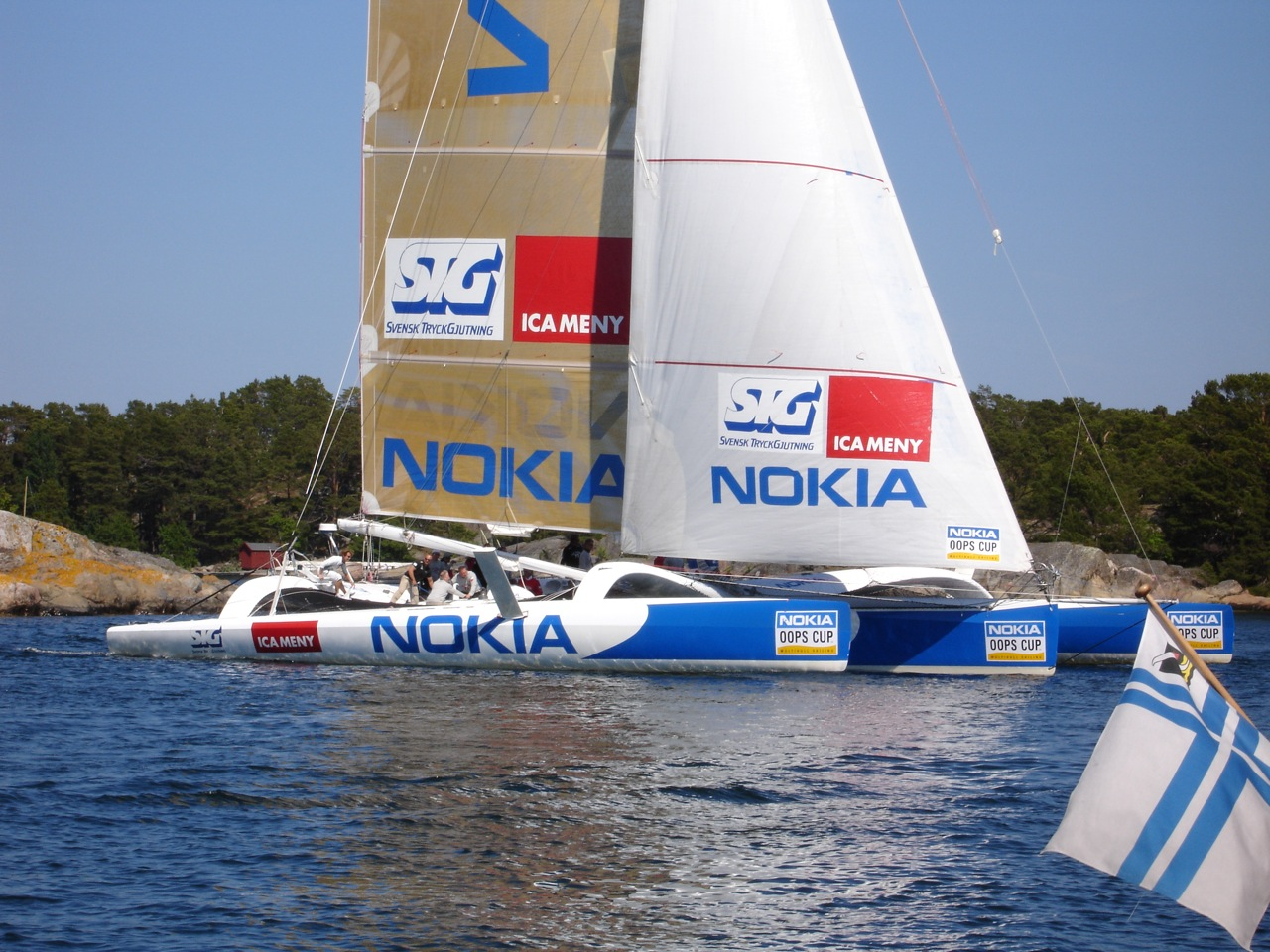 Photograph of an Open ORMA 60 trimaran in Sandhamn before the Round Gotland Race 2005.